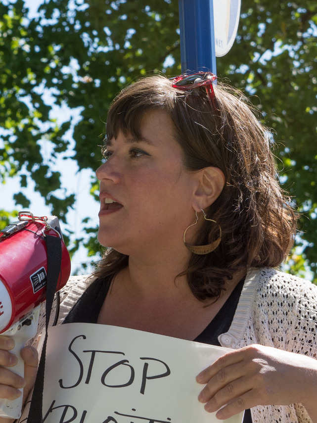 Photo of Portland City Council Member Chloe Eudaly